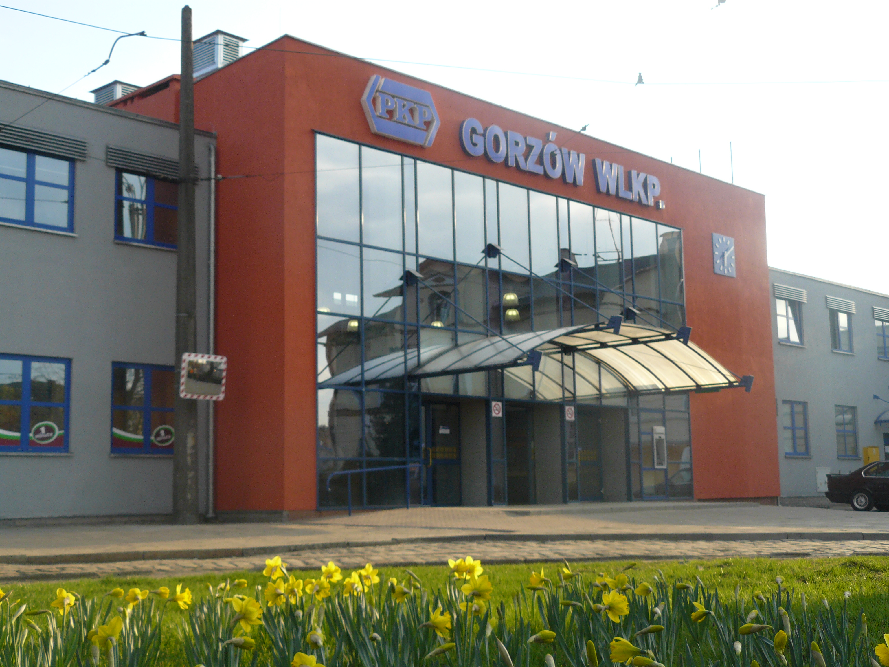 Dworzec kolejowy